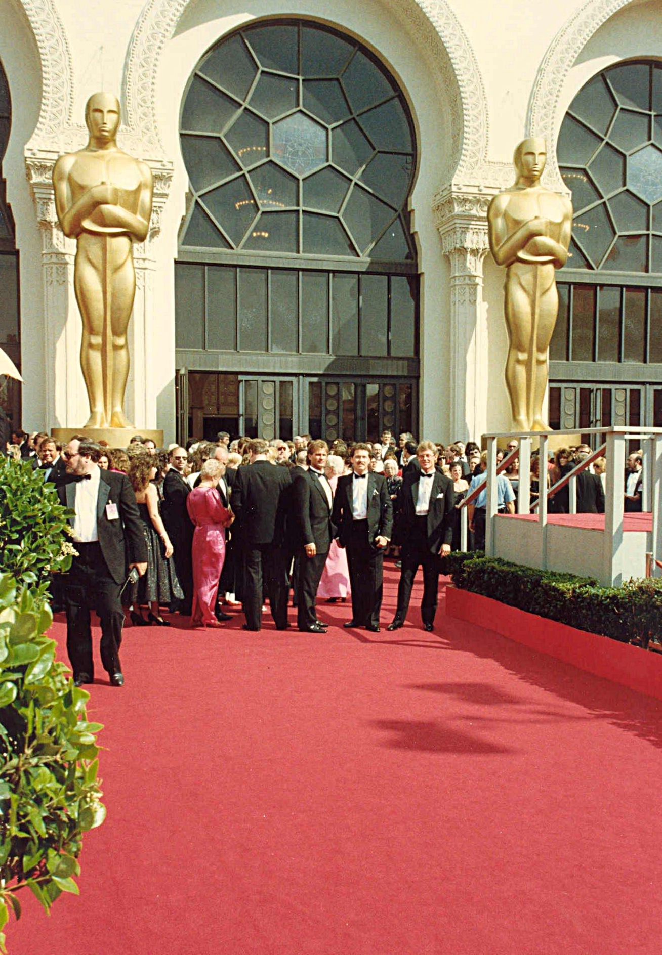 The red carpet at the 60th Annual Academy Awards